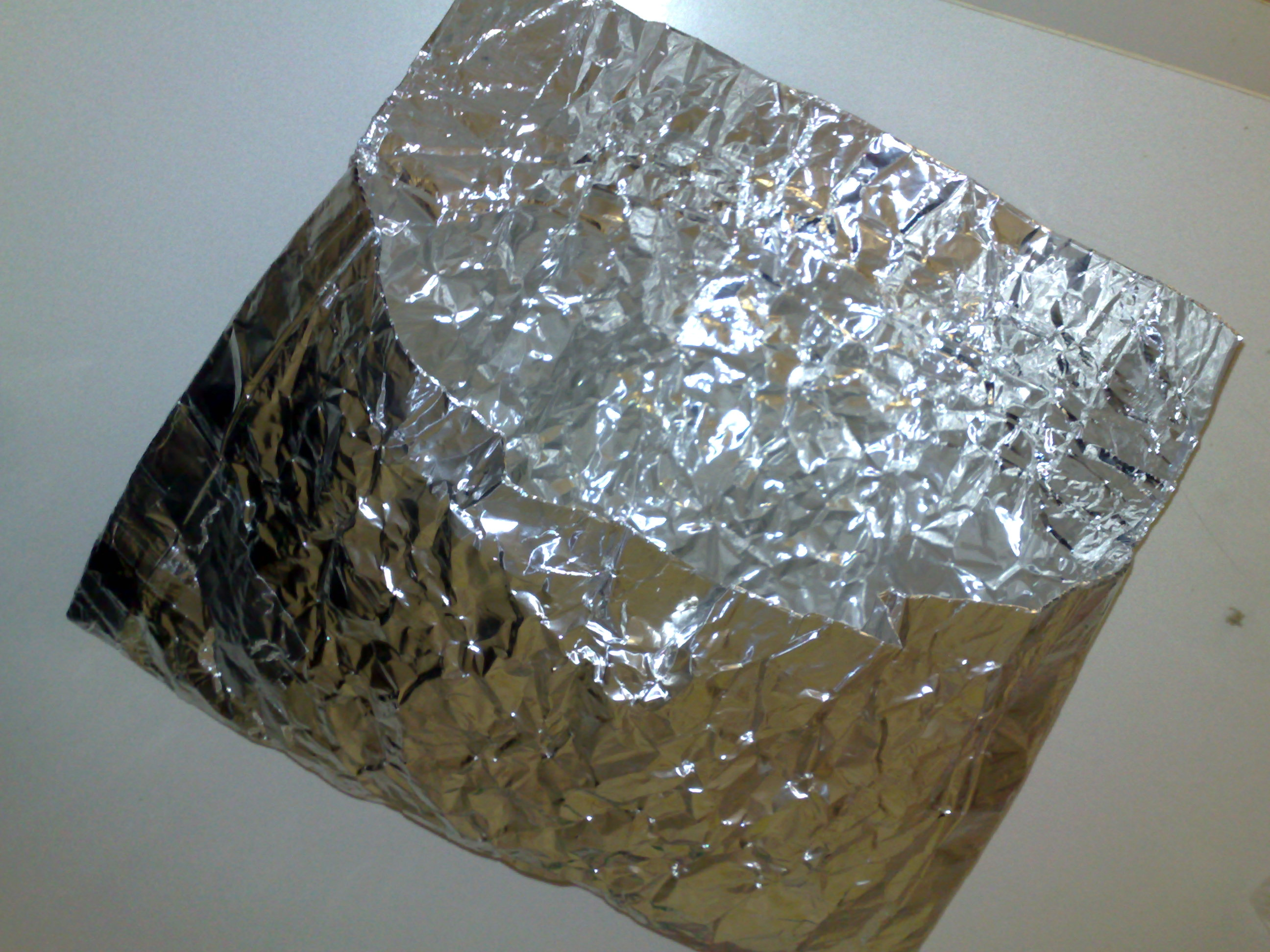 Found this inside a customer's bag. Aluminium foil bag like this will foil any electronic article protection system. But it didn't foil video surveillance :) - Camera phone upload powered by ShoZu